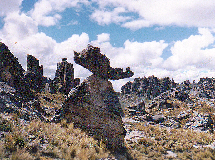 Rock Forest of Huayllay.